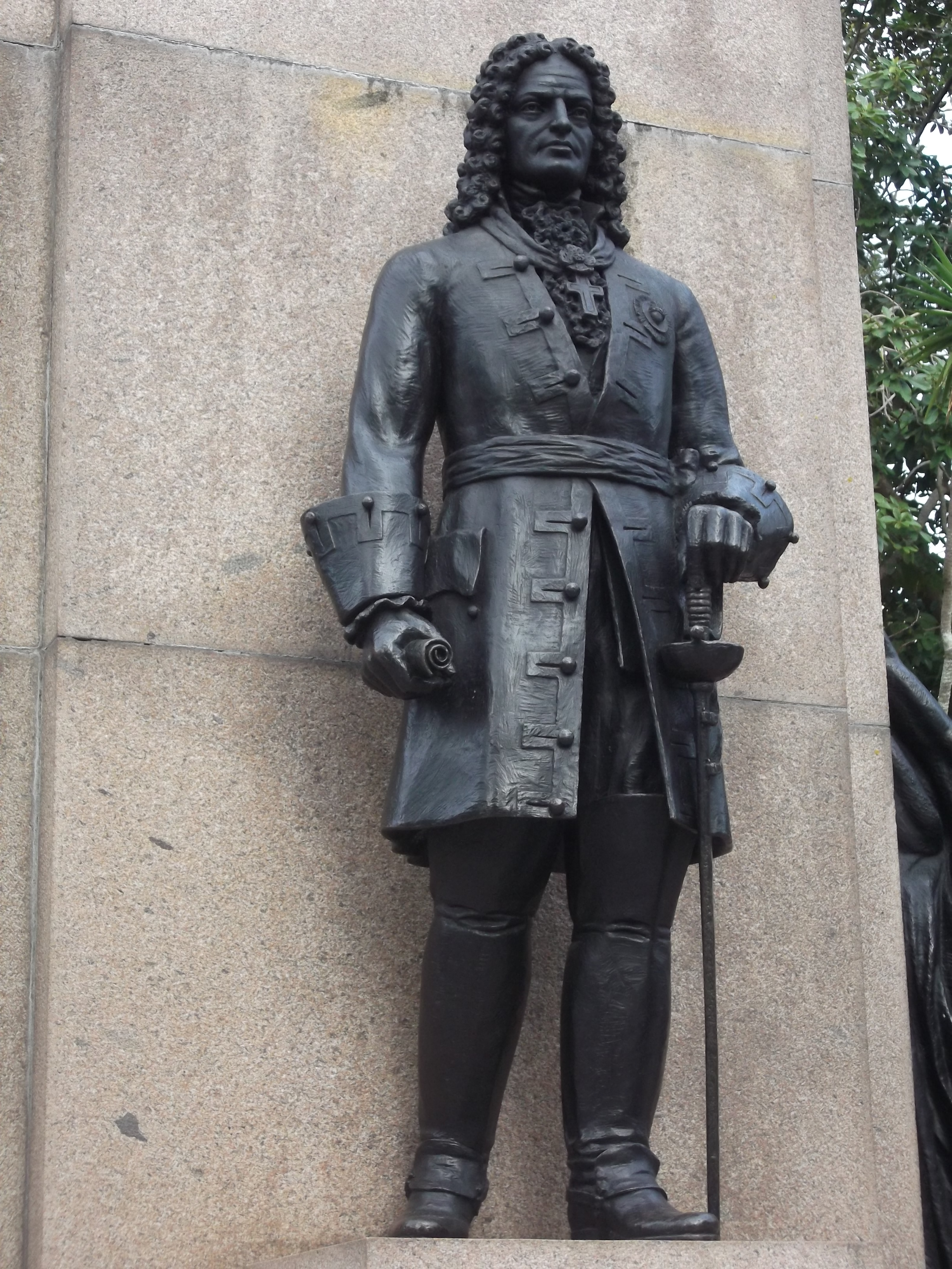 Jose da Silva Pais Monument, Rio Grande, Brazil